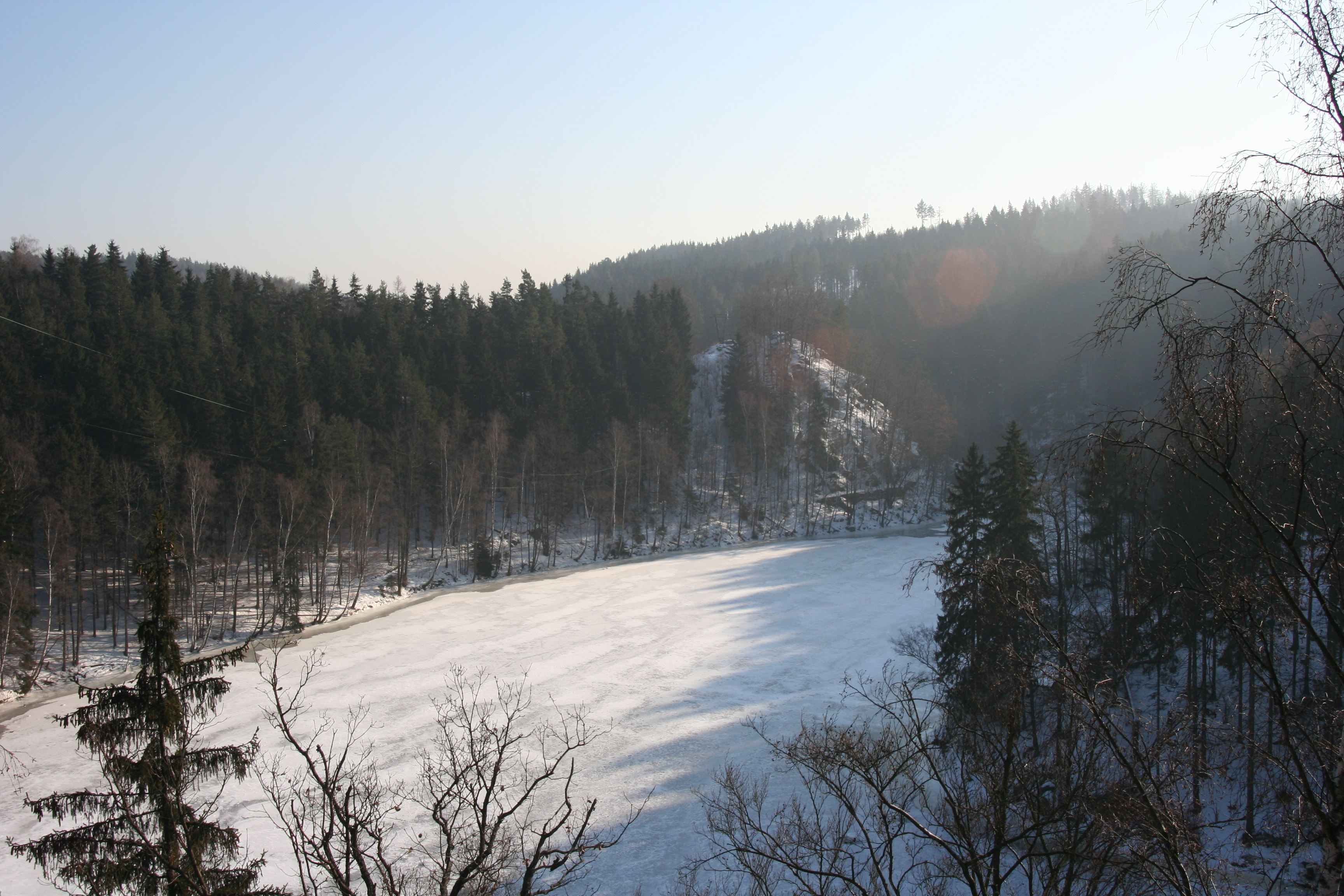 View form Wiezyca Hill, Bobr river, Jelenia Góra, Lower Silesia, Poland.